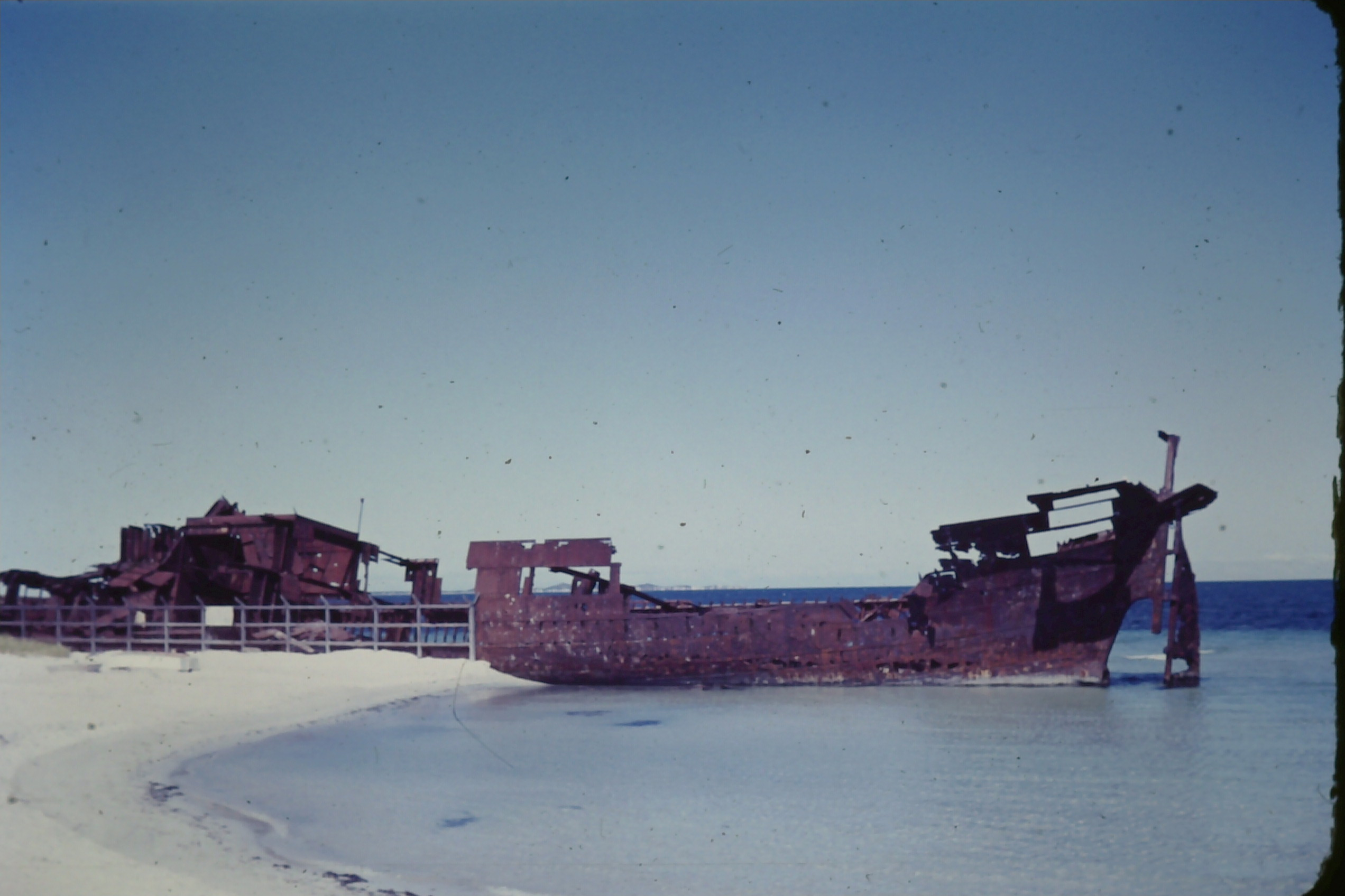 Wreck of the steamship Kwinana on Kwinana Beach, Western Australia in about 1960